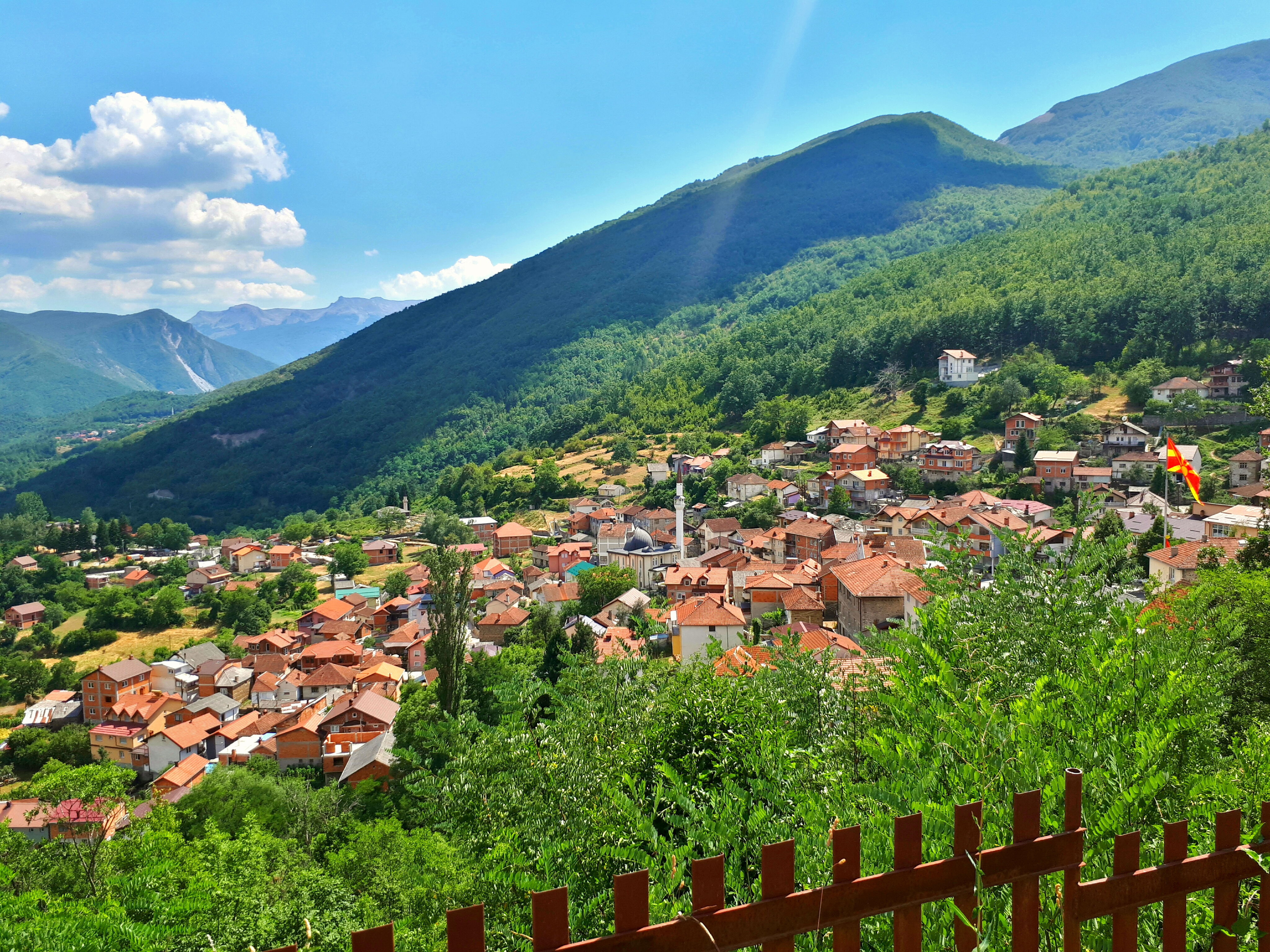 Taken during Wikiexpedition to Reka 2017